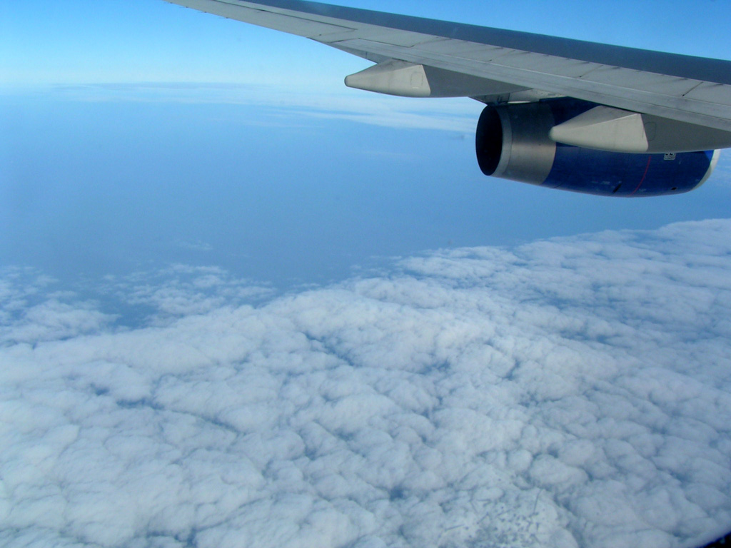 Statocumulus over China Sea, seen from a British Airways Boeing 747-400